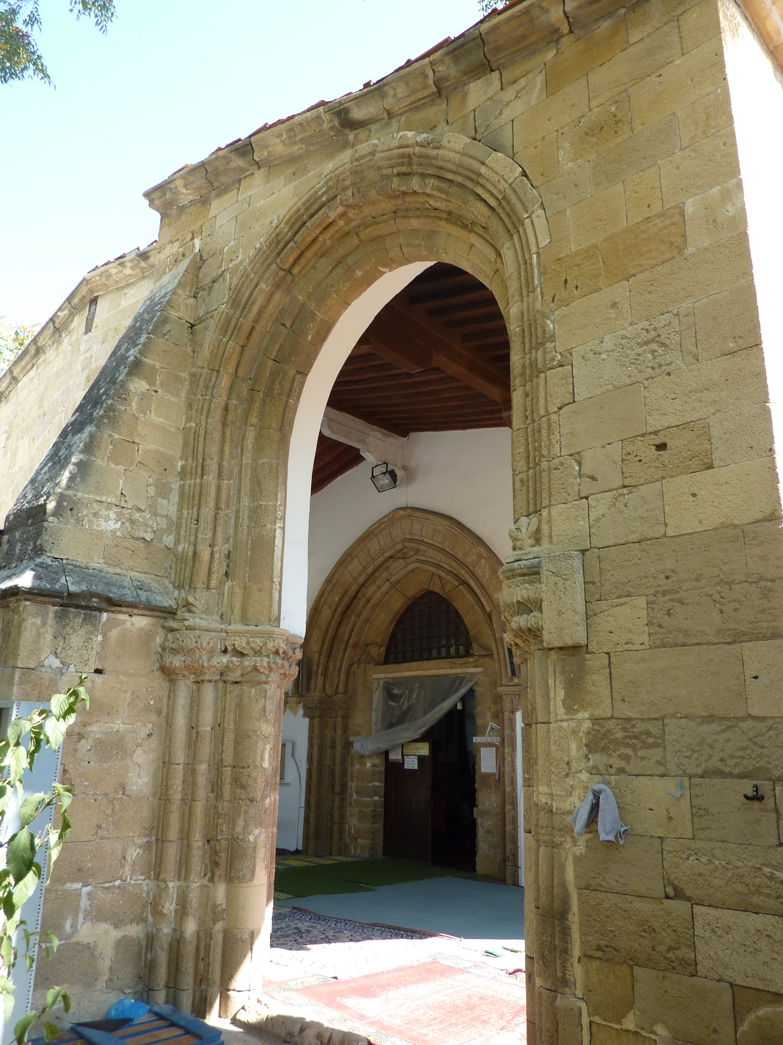 Omeriye Mosque (former Augustinian Church), Nicosia